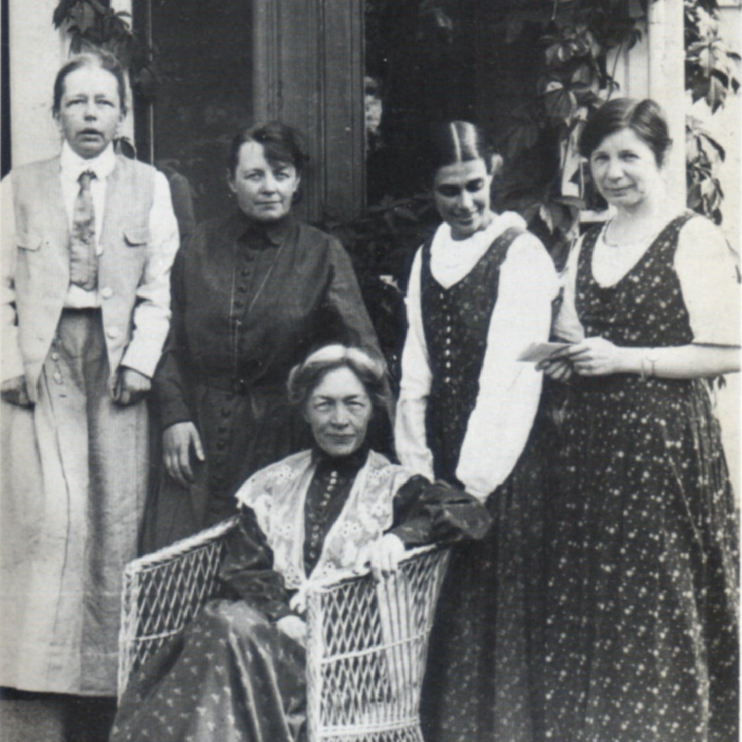 The Fogelstad group was a group of women who worked for women's rights. In 1923 they started a weekly newspaper that was published until 1936. Left to right: Elisabeth Tamm, Ada Nilsson, Kerstin Hesselgren, Honorine Hermelin, Elin Wägner.